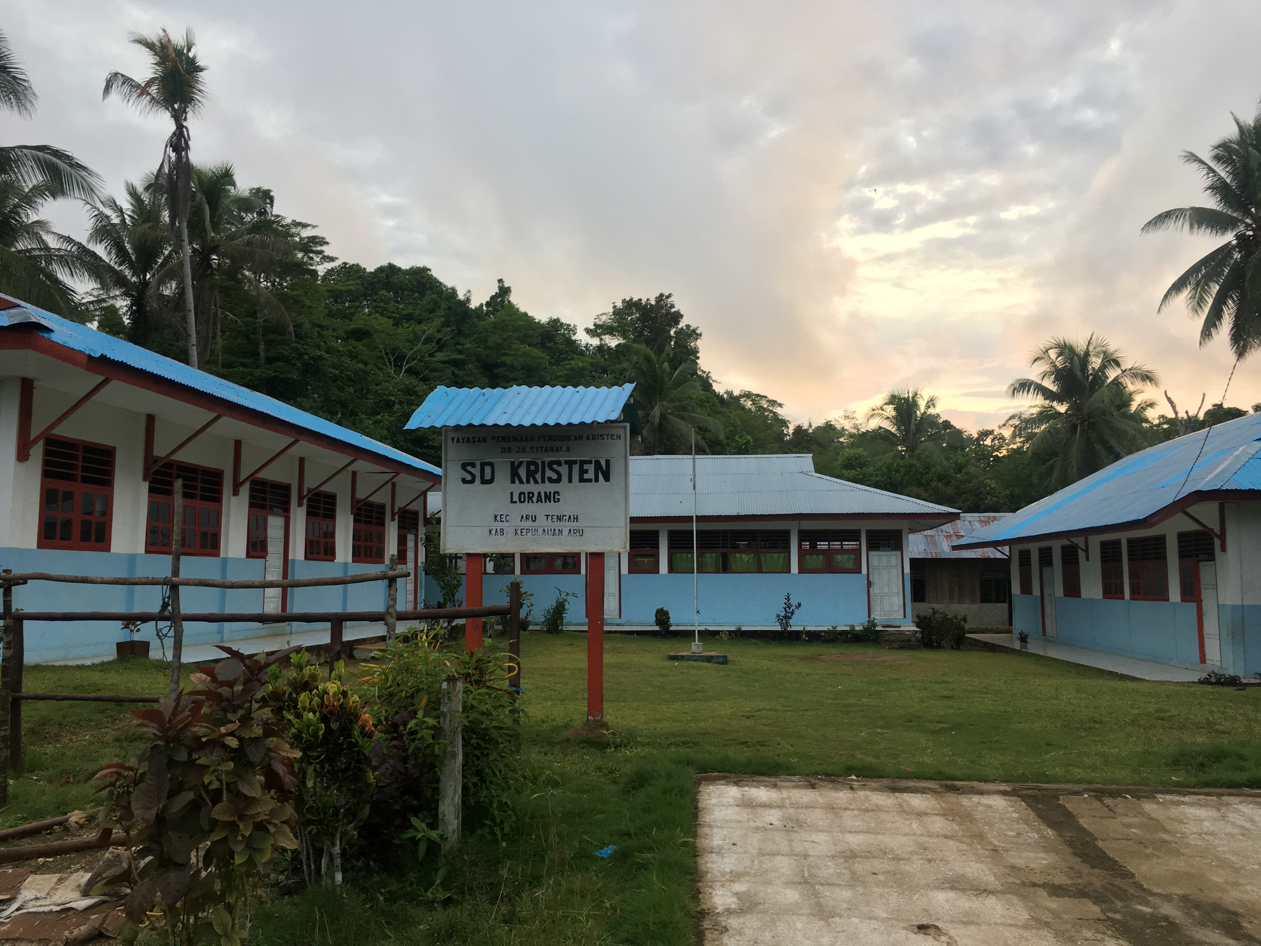 An elementary school at Lorang Village, Aru Tengah, Kepulauan Aru, Maluku, Indonesia